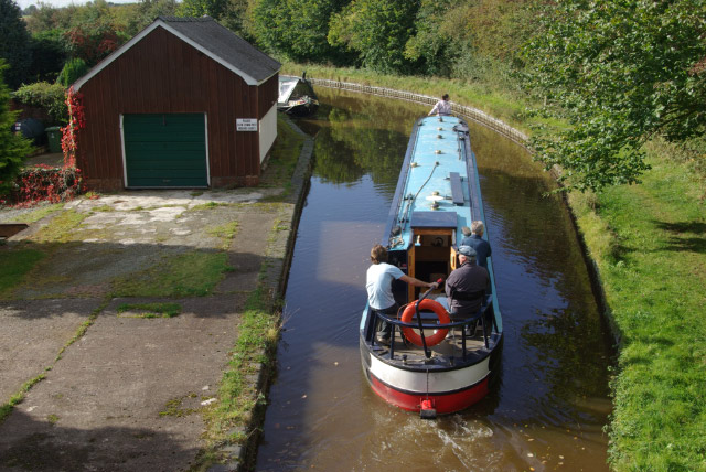 Llangollen Canal, Bettisfield. The narrowboat has just passed under Bettisfield Bridge heading towards Ellesmere.